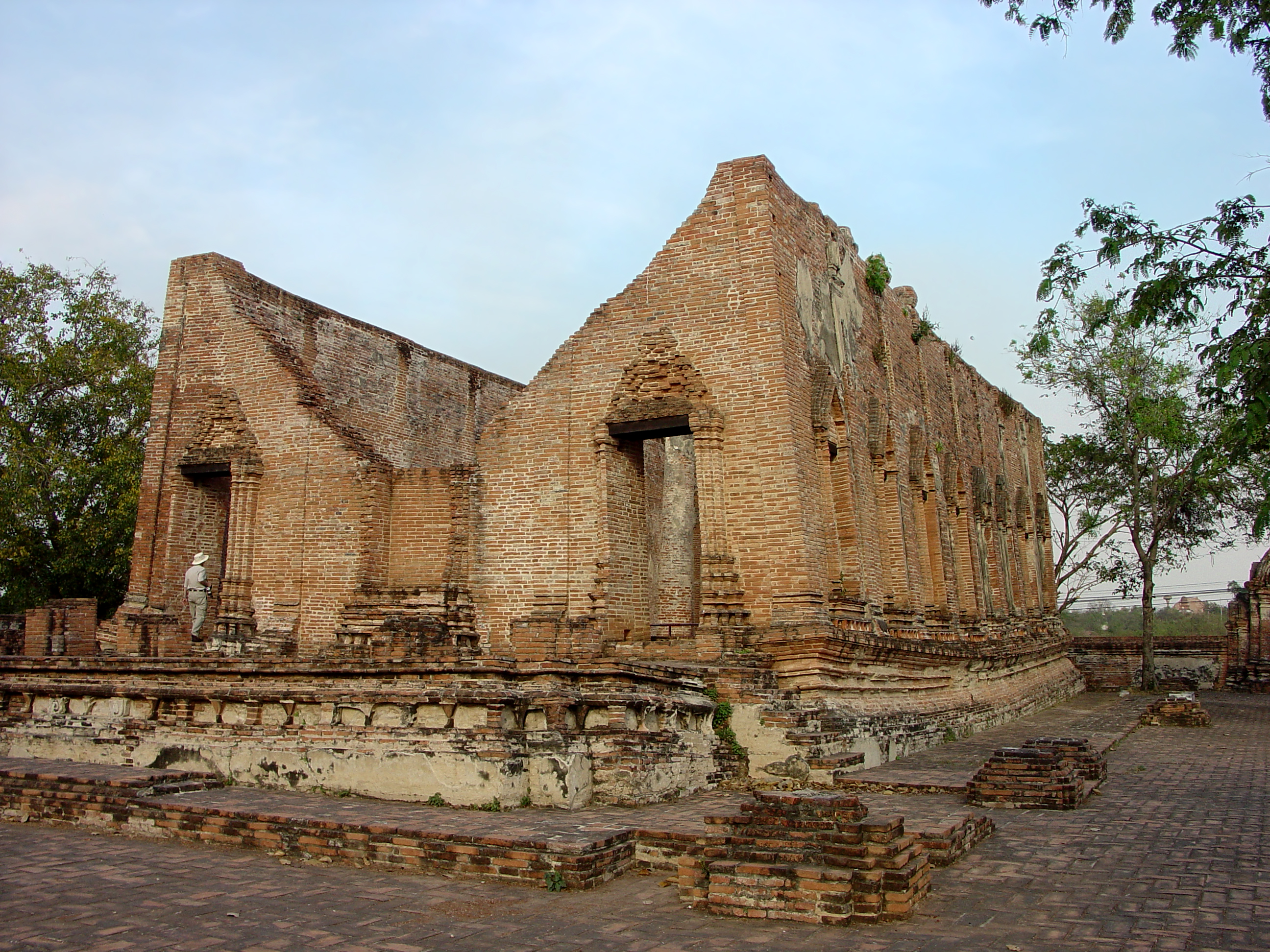 Kudidao monastery, now in ruins, was built during the reign of King Narai (1656-1688), and restored in 1711 by Crown Prince Boromakot, who became King Boromakot in 1732. It is a good example of Late Ayutthaya style. Pictured in this photo is a hall of the monastery that has been partially restored in modern times. The lean of the building walls as restored, which is obvious in this photo, was intentionally designed to compensate for an instability of the ground underneath the platform.